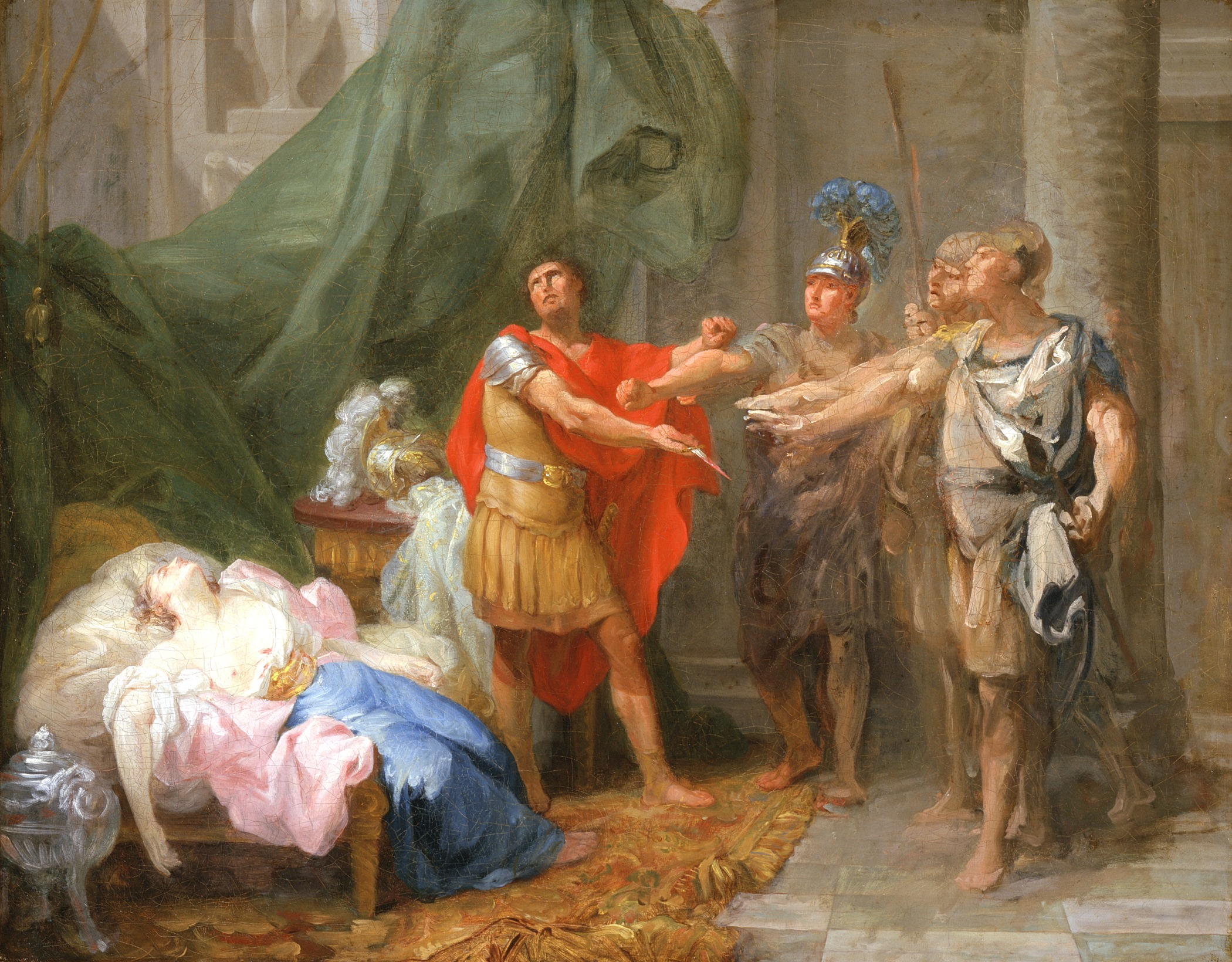 France, circa 1771 Paintings Oil on canvas The Ciechanowiecki Collection, Gift of The Ahmanson Foundation (M.2000.179.18) European Painting Currently on public view: Ahmanson Building, floor 3